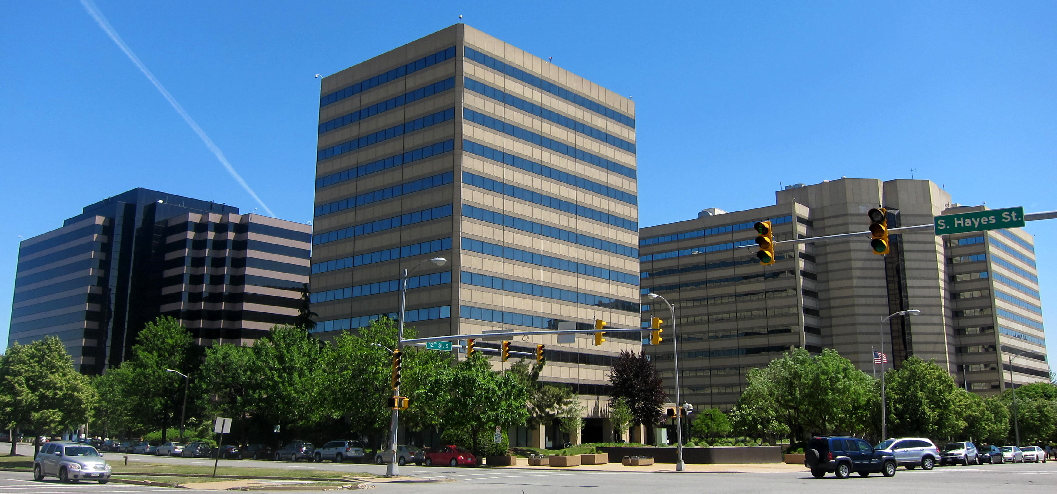 High-rise office buildings in the Pentagon City neighborhood of Arlington County, Virginia.